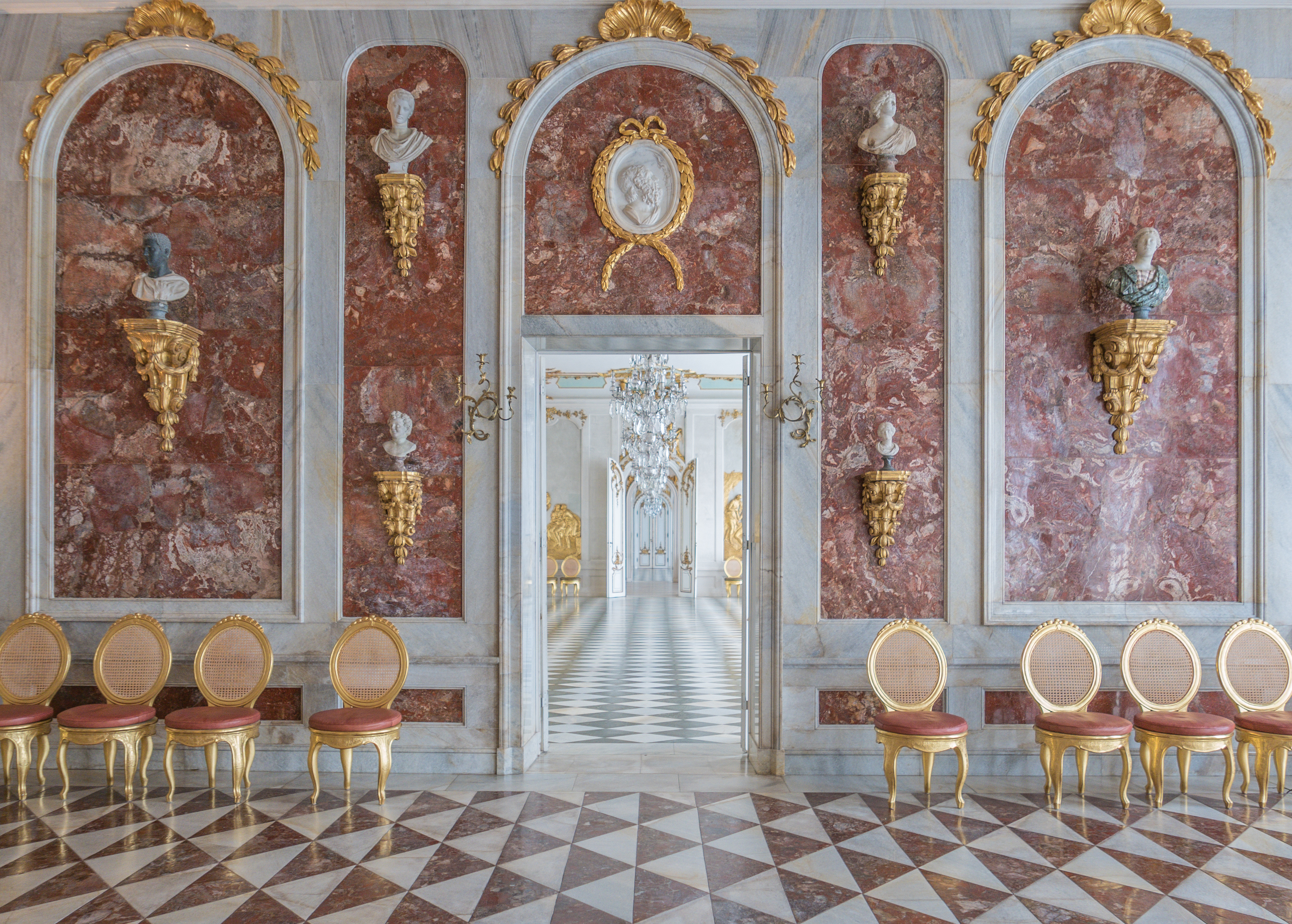 Inside view of the New Chambers in the Sanssouci Park in Potsdam, Germany. The picture is taken from the Jasper Room, towards the Ovid Gallery.